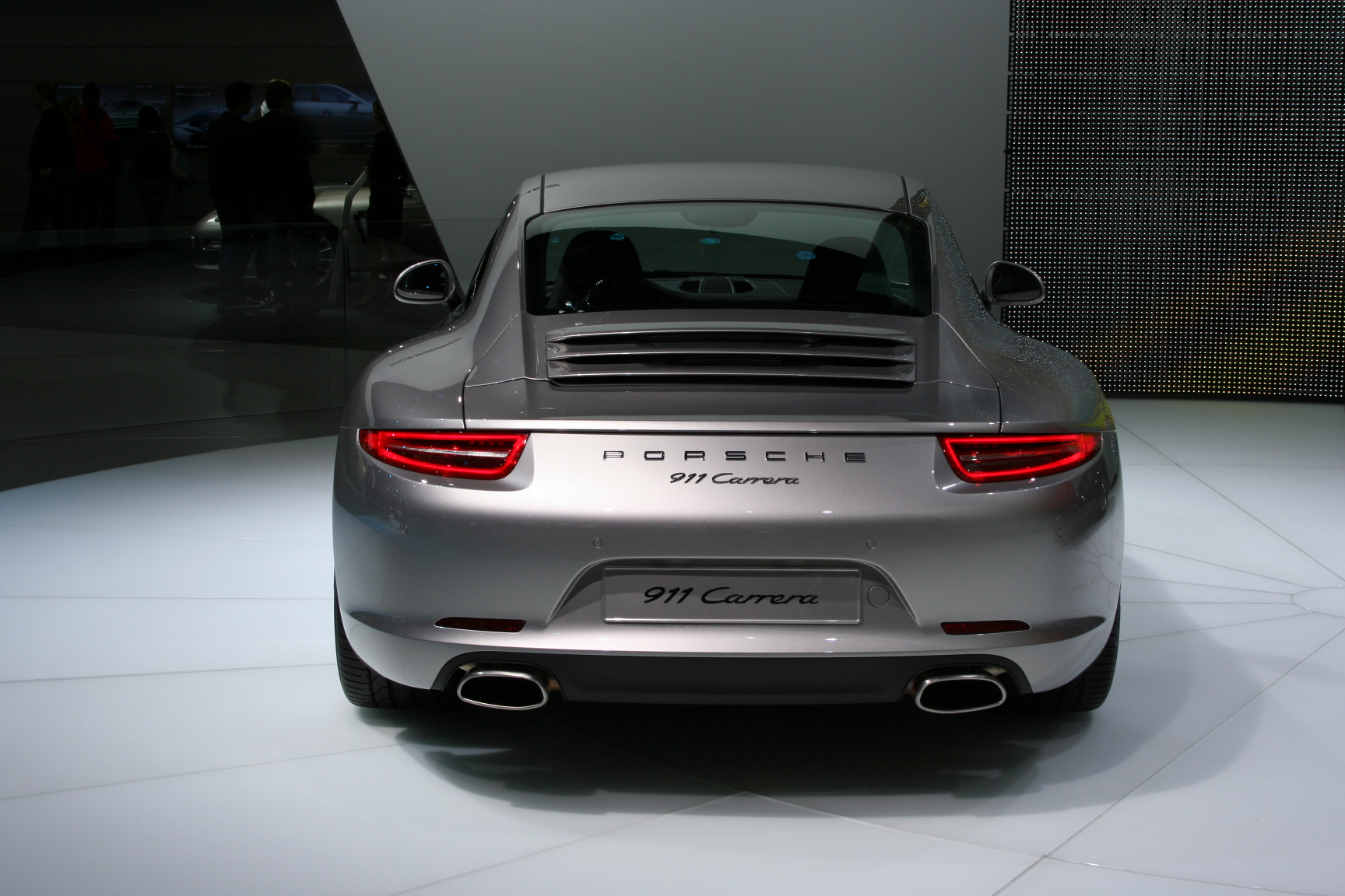 Silver Porsche 991 (911 Carrera) at IAA 2011. View: rear